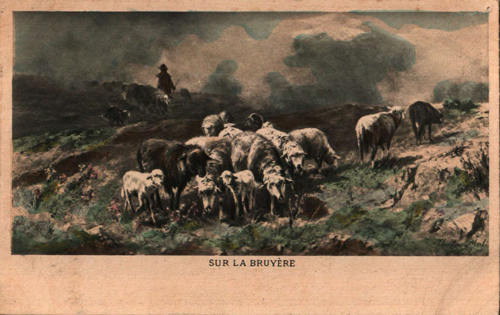 Postcard